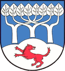 Coat of arms of the municipality Stadum in Schleswig-Holstein, Germany.